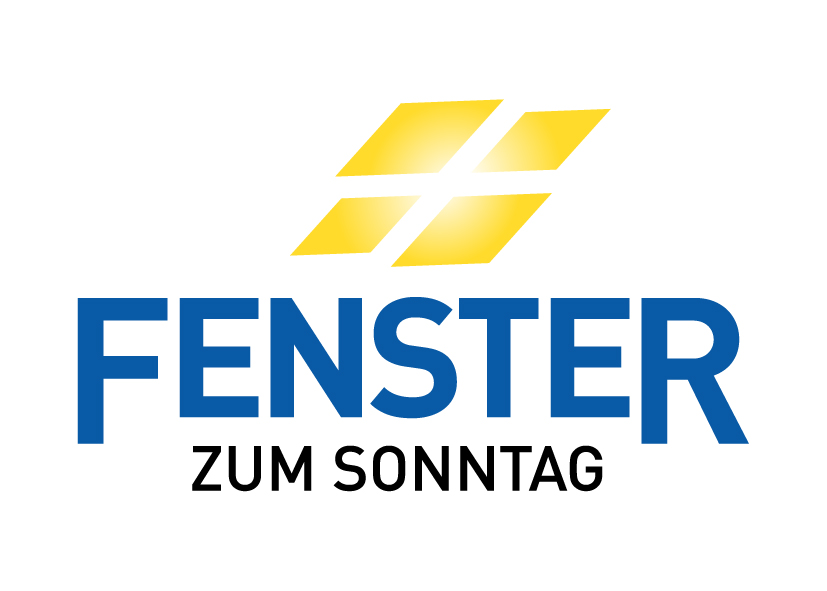 Logotype FENSTER ZUM SONNTAG